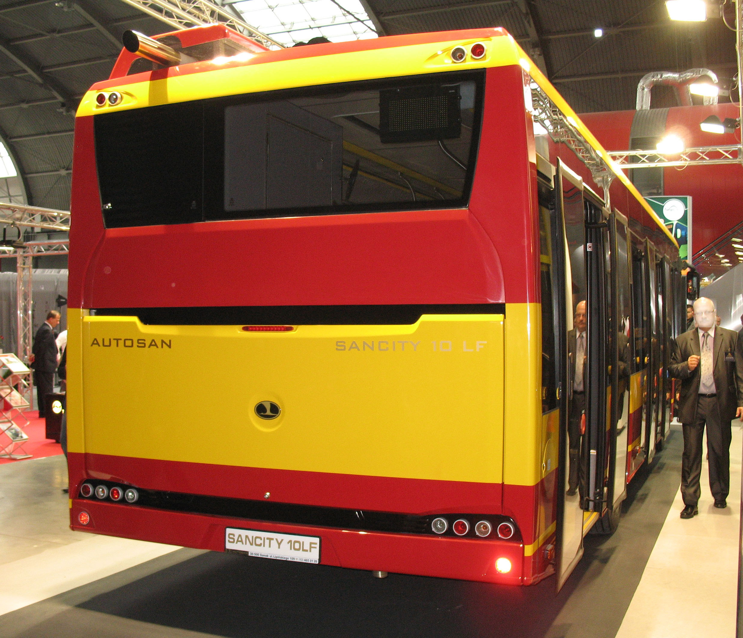 Autosan Sancity 10LF bus prototype in Kielce, Poland. Built 2011, Transexpo 2011.